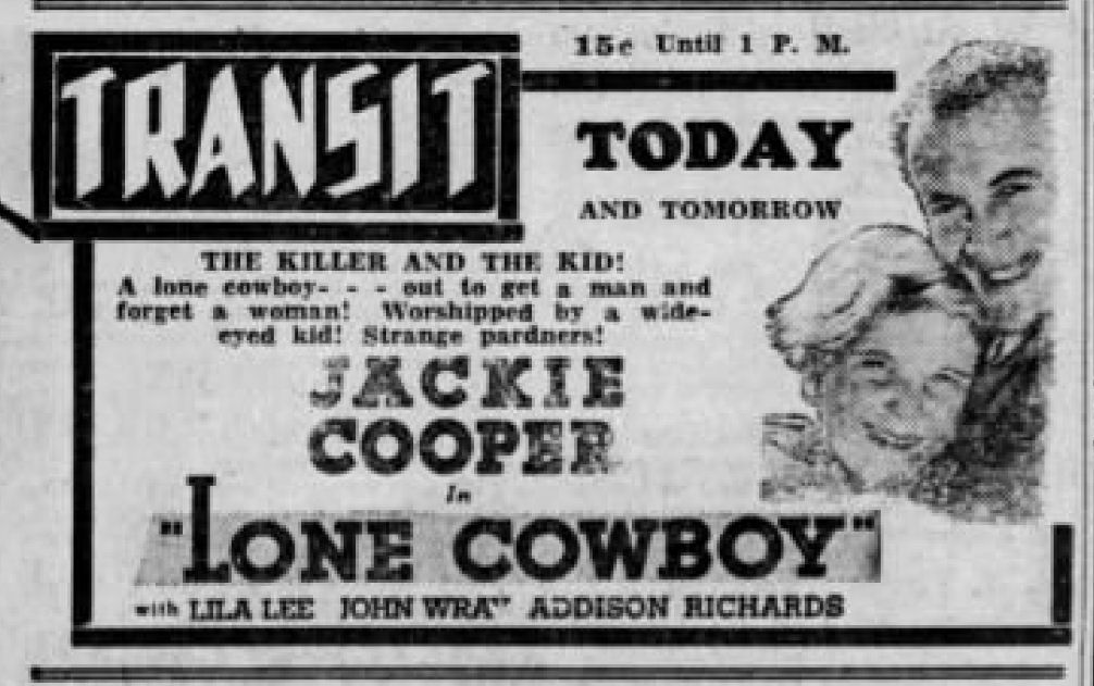 Transit Theater advertisement for the American western film Lone Cowboy (1933) - 9 Feb. 1934 Morning Call, Allentown PA